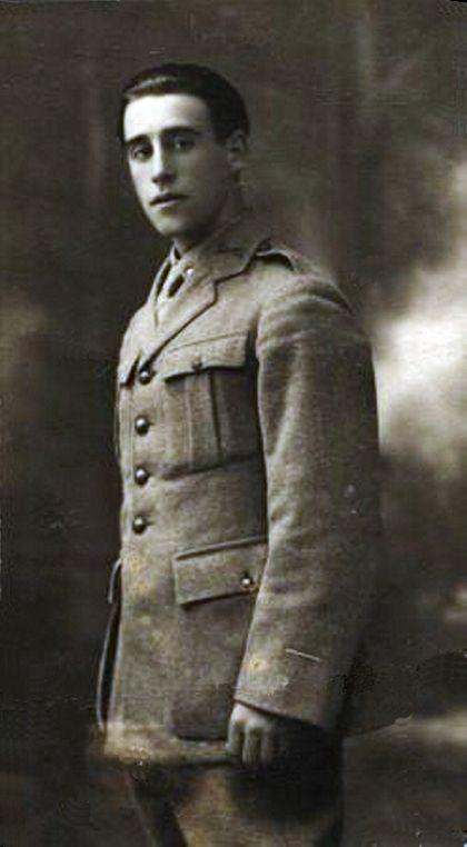 Francisco Craveiro Lopes (1894-1964), as a military Ensign in 1918.